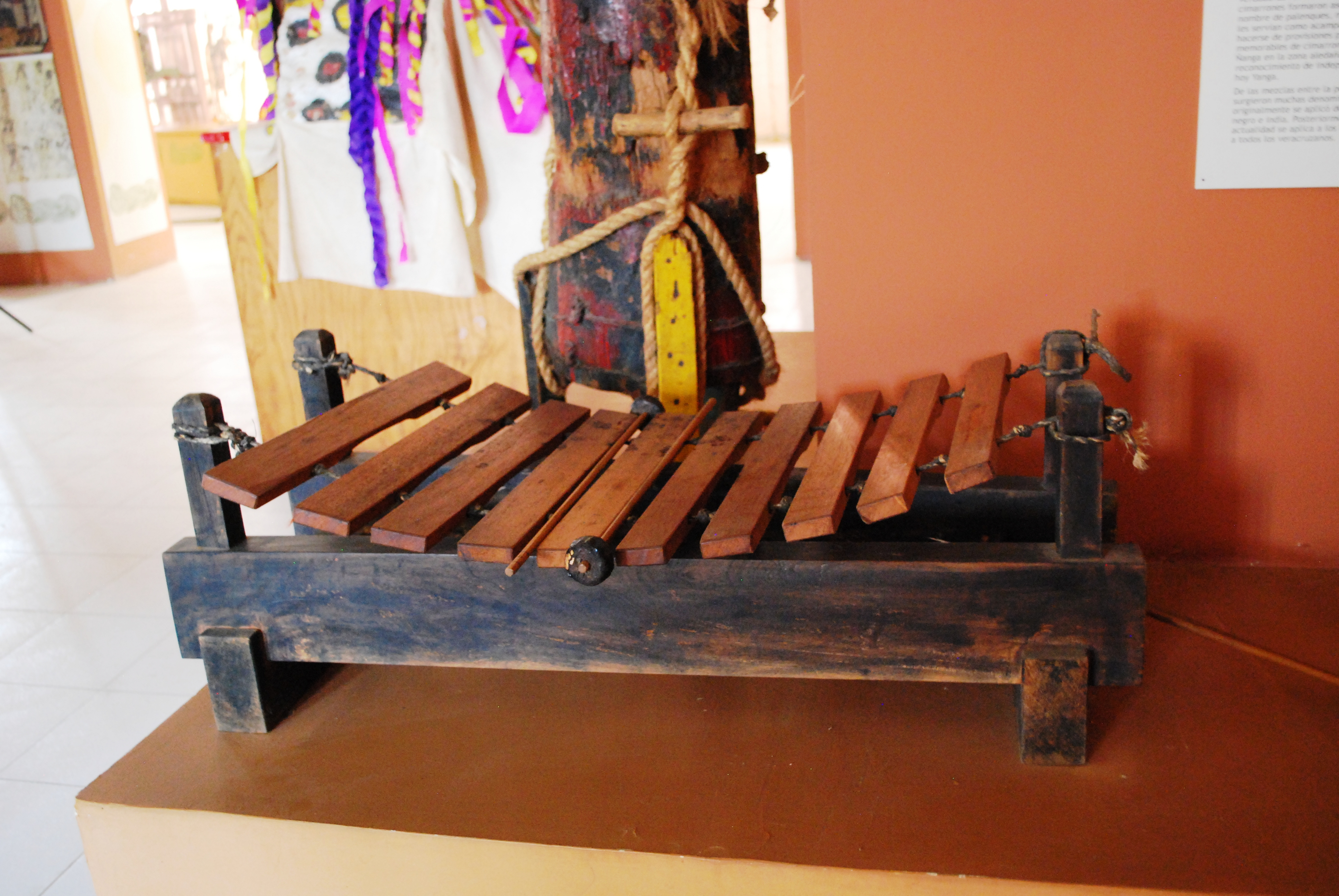 Exhibits inside the Museo de las Culturas Afromestizas in Cuajinicuilapa, Guerrero